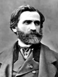 Italian composer Giuseppe Verdi (1813-1901). Photographer unknown, year unknown (ca. 1850?).